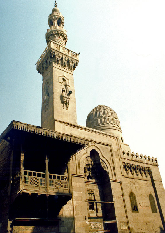 Mosque of Taghribardi. Cairo, Egypt